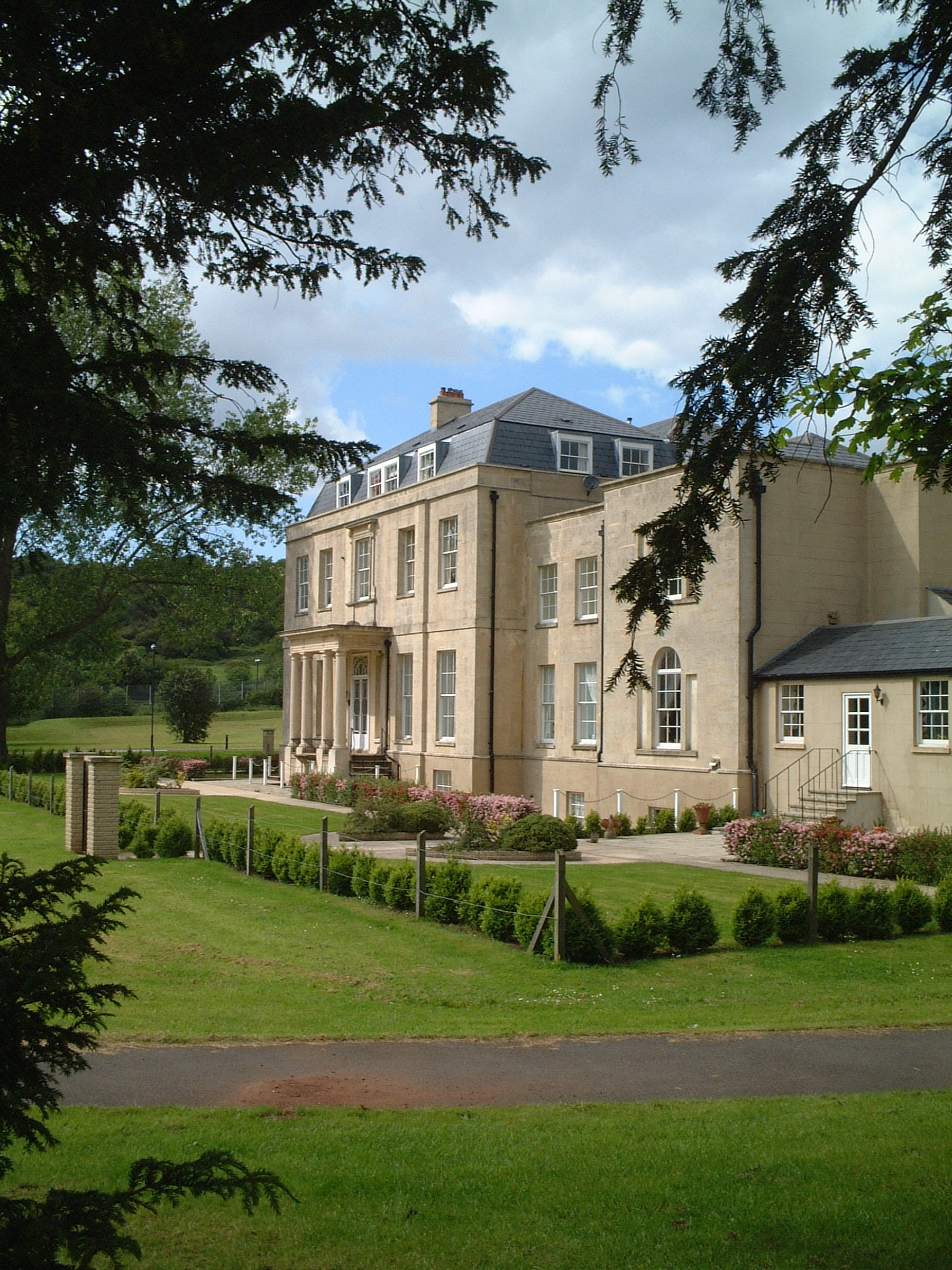 Southern view of Beech House, Stapleton Bristol UK